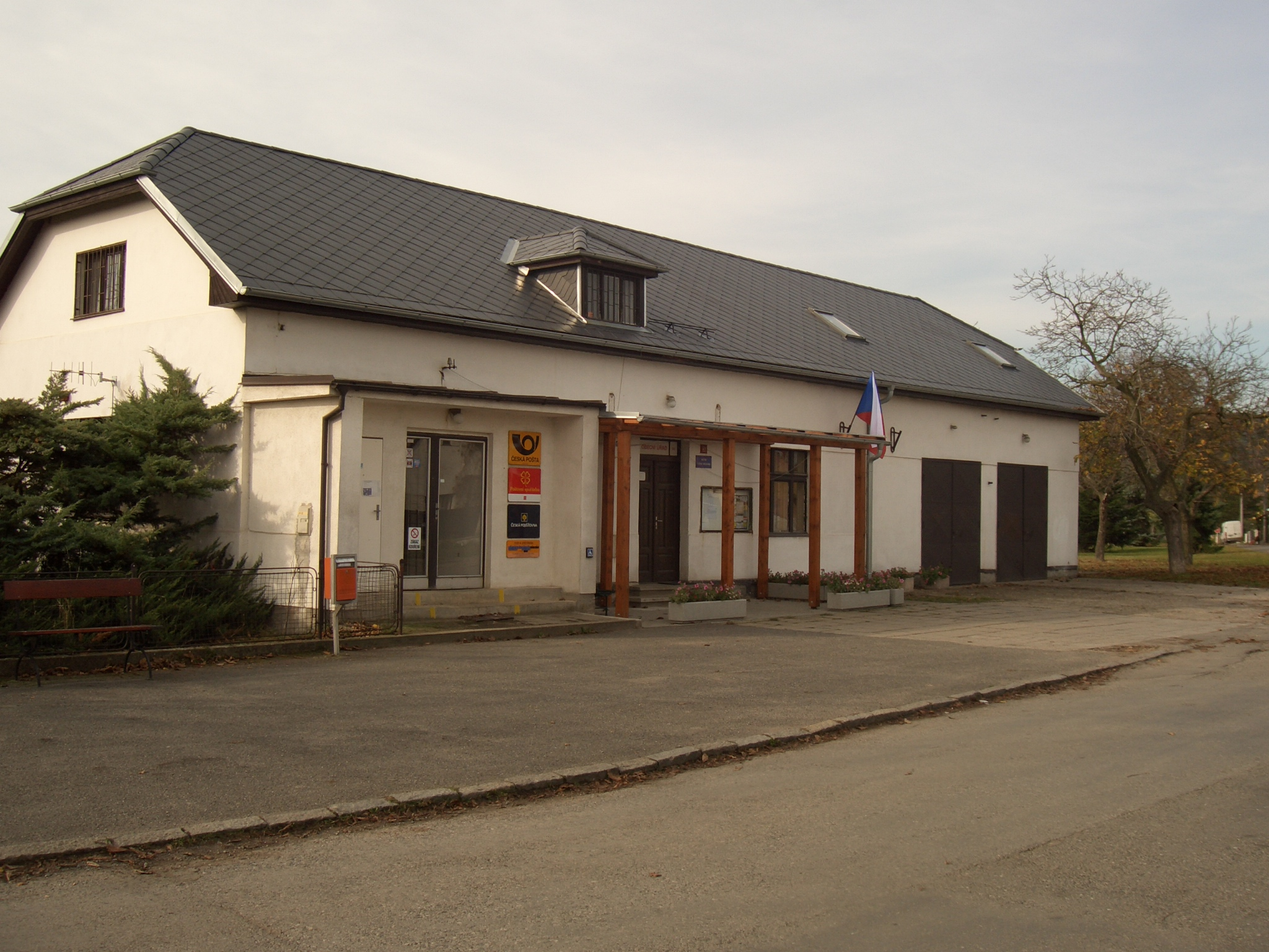 Municipal authority in Řitka, Prague-West district